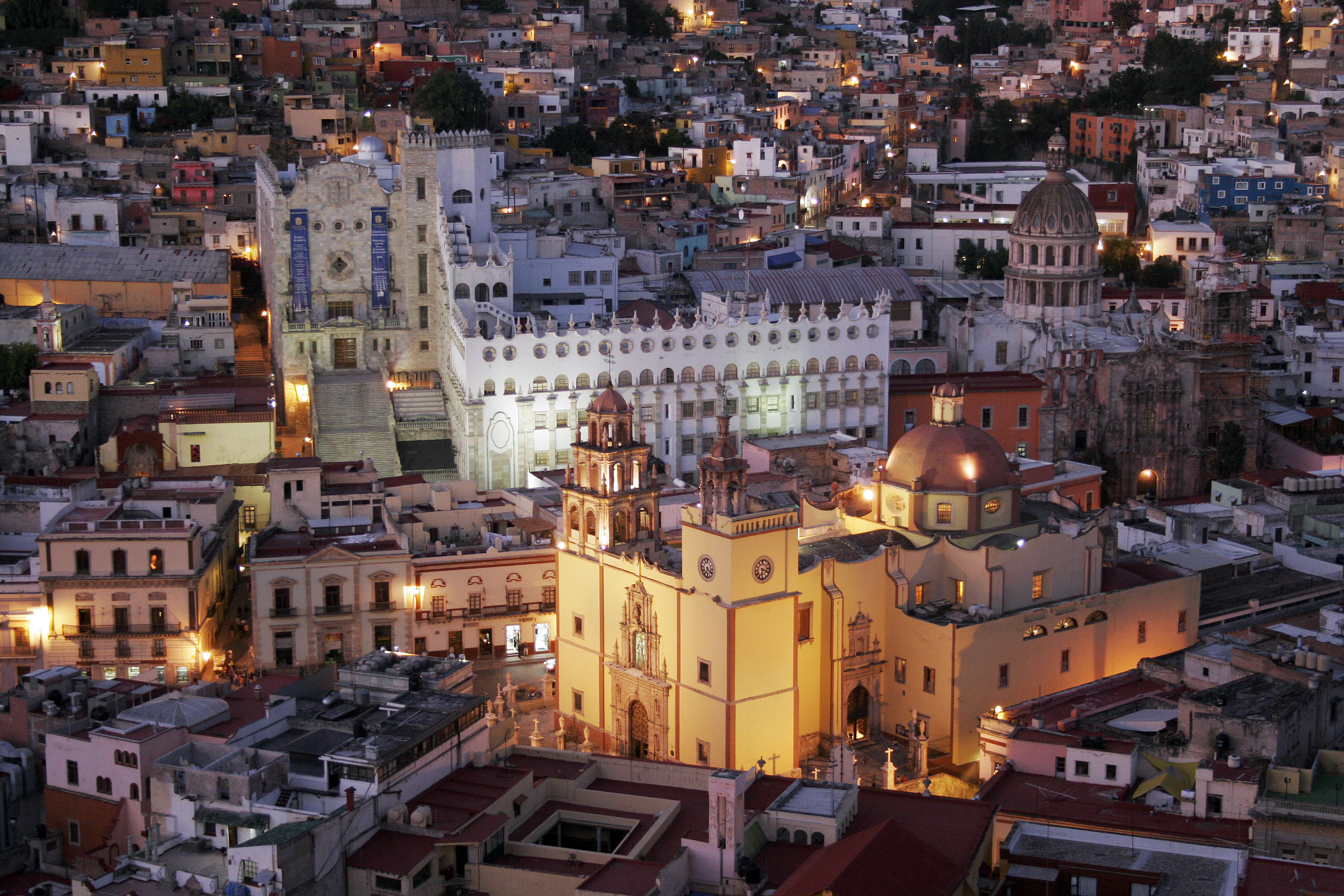 The city of Guanajuato, Mexico at night. Main buildings are the Sanctuary of Guadalupe and the University of Guanajuato. Guanajuato was once them largest mine producing locality accounting to up to 90% of the world´s silver (check this data for more accuracy, this is what I remember from my regional history lessons!). This city is a declared monument by the UN.